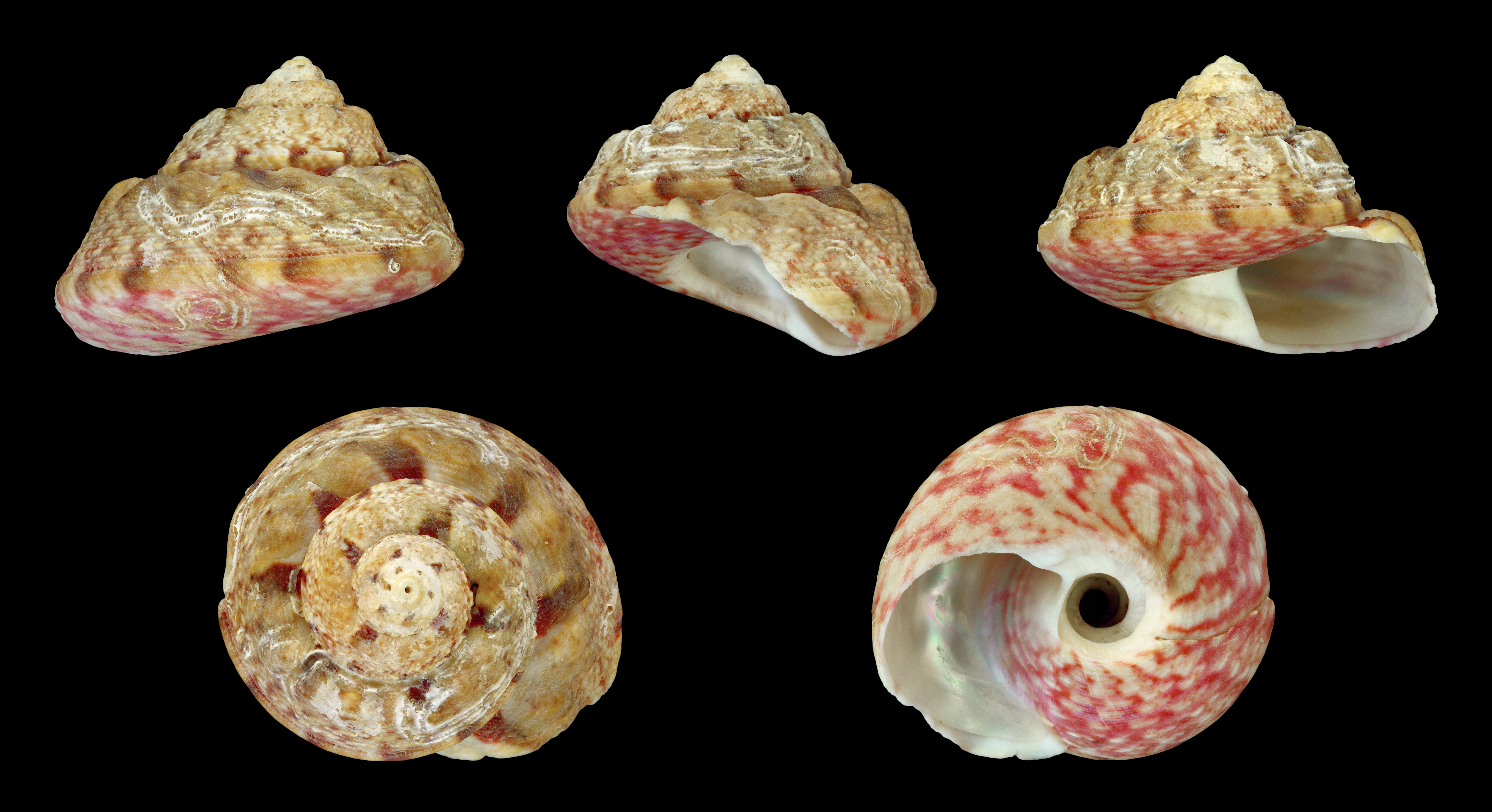 Great Top Shell; Diameter 2.3 cm; Originating from Port Leucate, France; Shell of own collection, therefore not geocoded.